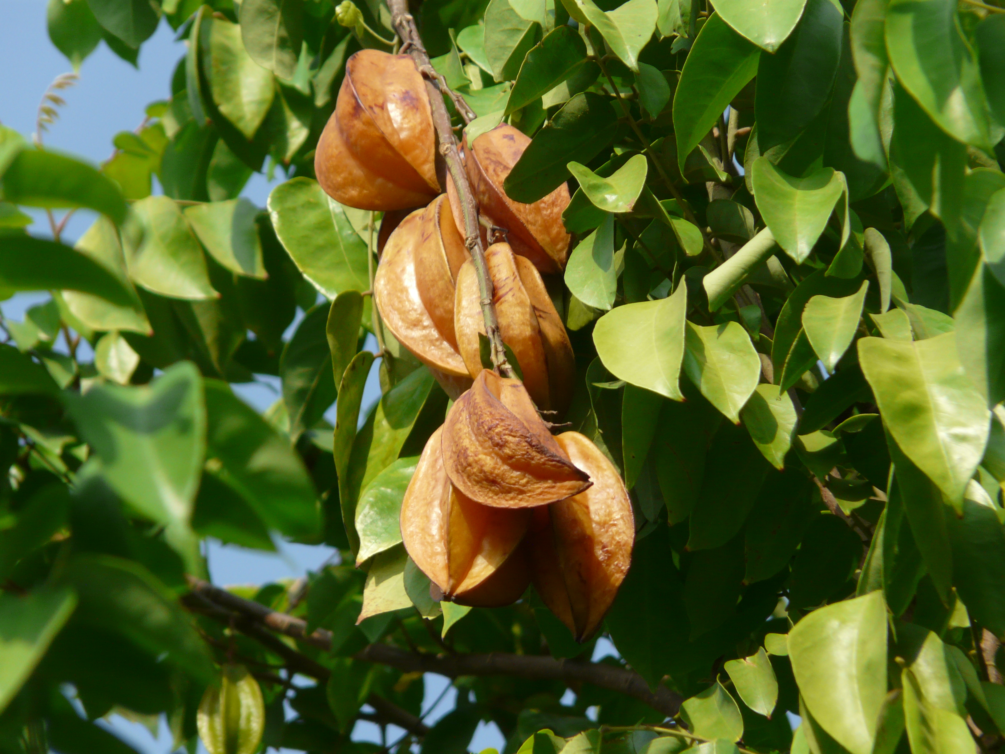 Oxalidaceae (wood sorrel family) » Averrhoa carambola av-er-OH-uh -- named for Averrhoes, an Arabian physician kah-rahm-BOH-luh or ka-RAM-boh-luh -- Latin form of an aboriginal name commonly known as: carambola, star fruit, coromandel gooseberry, kamranga, five finger, five corner • Bengali: কামরাঙা kamarana • Hindi: दन्तसठ dantasatha, कमरक kamaraka, कमरख kamarakha, पर्णमाचाल parnamachal, पीतफल pitaphala, शिराल shiral • Kannada: ಕಮರಾಕ್ಷಿ kamaraakshi, ಕಮರಮ್ಗ kamaramga • Marathi: कमरख kamarakha, करमळ karamala, करंबल karambala • Sanskrit: कर्मरकः karmarakah, कर्मरंग karmaranga • Tamil: கந்தசட்கம் kantacatkam, தமரத்தை tamarattai, தாமரத்தம்பழம் tamarattampazam • Telugu: అంబాణపుకాయ ambanapukaya, కర్మరంగము karmarangamu, తమాటకాయ tamatakaya Native to: south-east Asia ... fruits, up to five inches long, with three to five deep ribs ... when raw are green and crunchy, have a slightly tart, acidic, taste ... as they ripen, turn to yellow or golden-brown, with sweet, slightly acid, pleasant tasting pulp ... though it can be eaten in both stages. References: Flowers of India • Wikipedia • Purdue University • M.M.P.N.D.